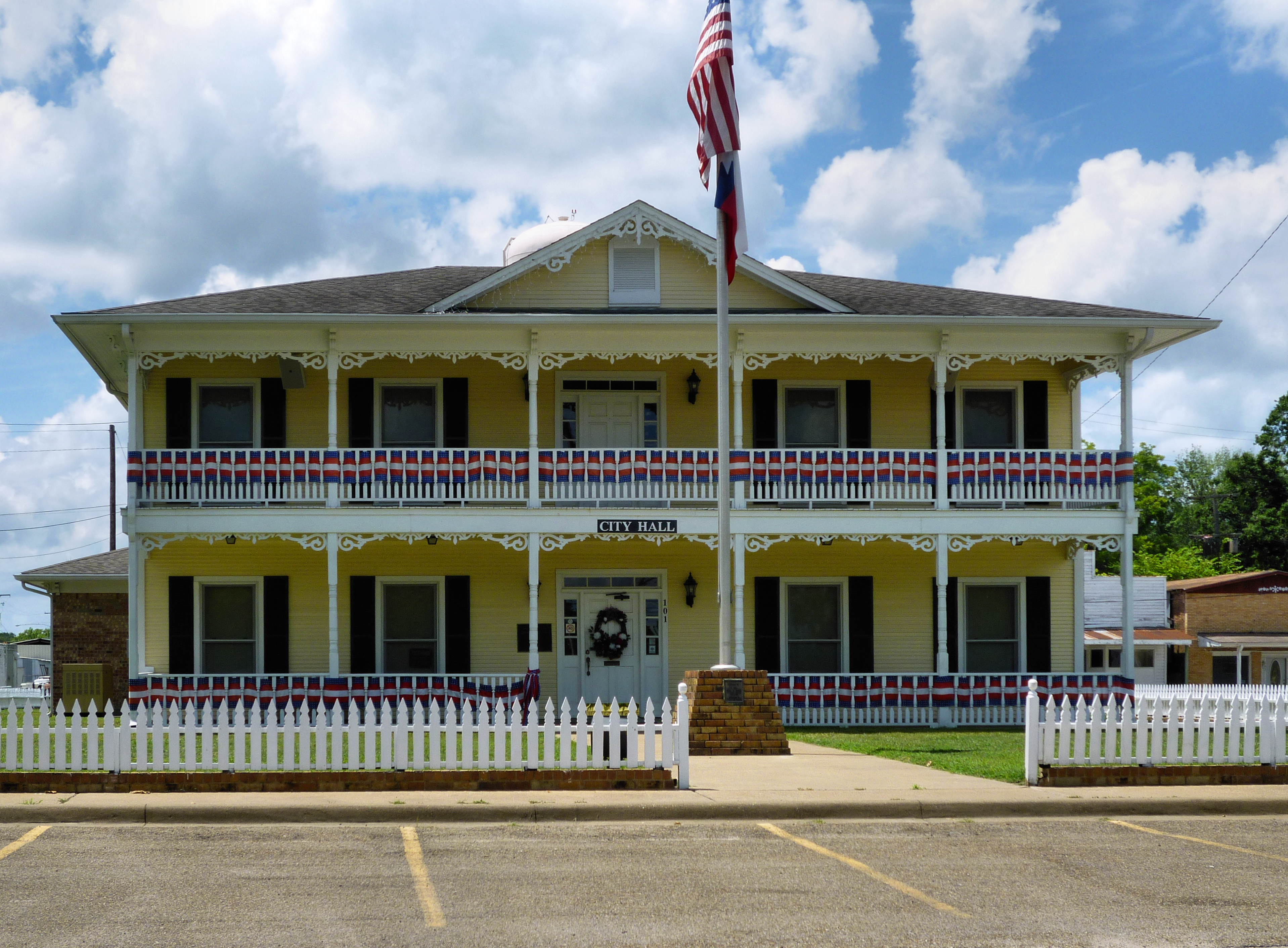 Corrigan, Texas City Hall